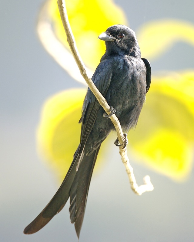 Black drongo Dicrurus macrocercus December 11, 2007 Jahangir University campus, Dhaka, Bangladesh _Q0S2608